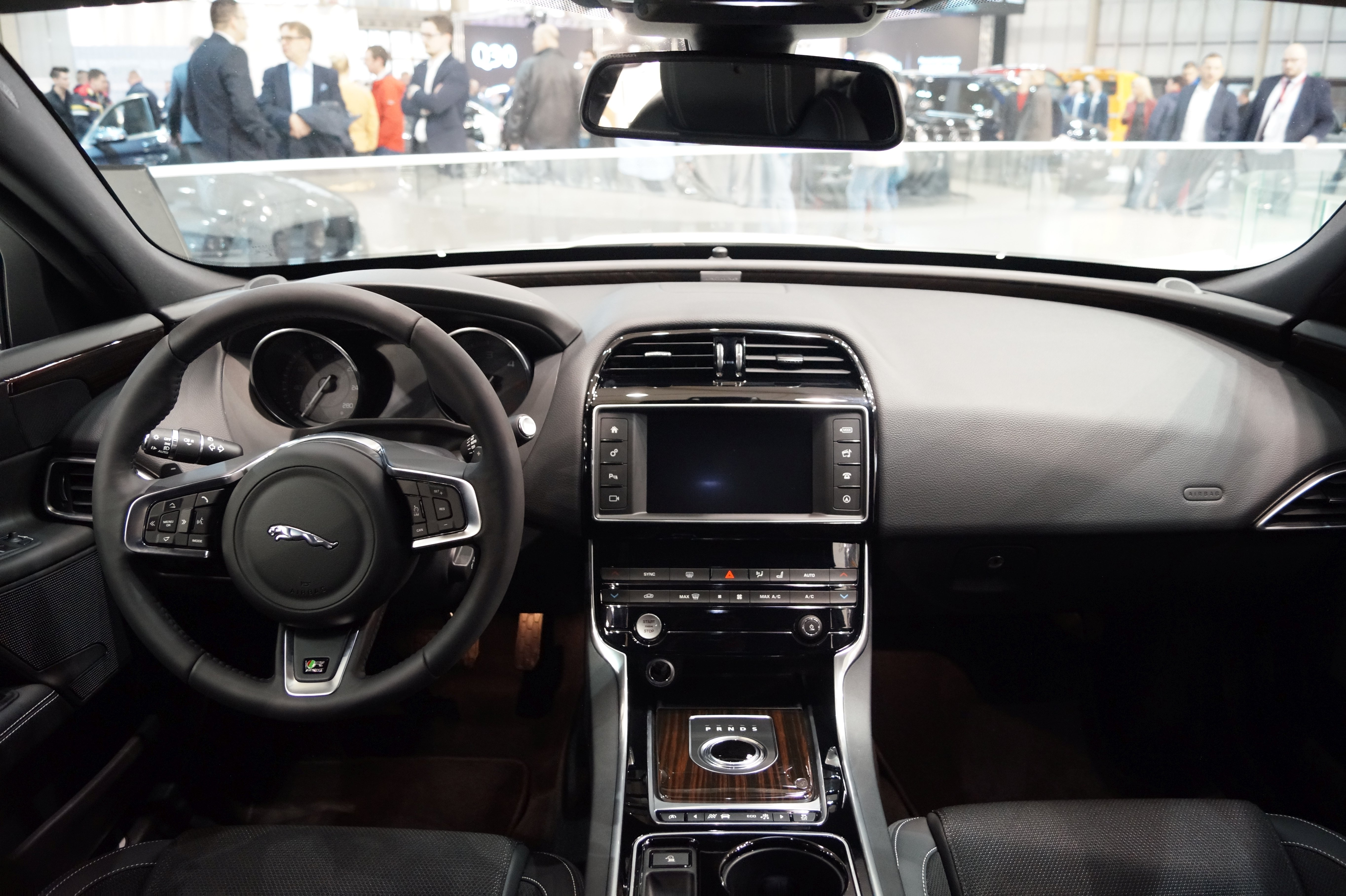 The making of this document was supported by Wikimedia Polska Association, within Wikigrant no. WG 2016-10. Wnętrze Jaguara XE na Motor Show Poznań 2016